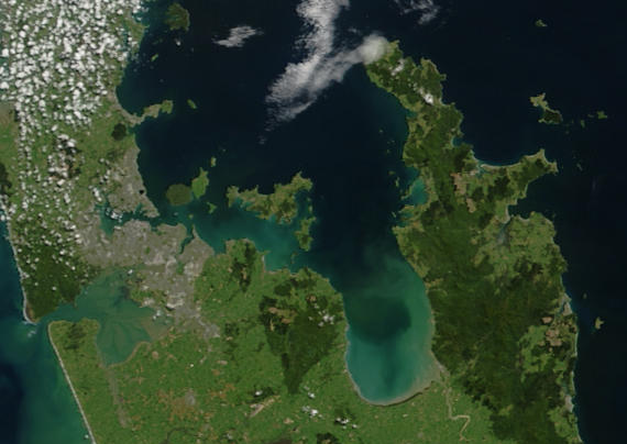 Close-up of the area around the city of Auckland (left) and Coromandel Peninsula (right). "This stunning true-color image provides a rare, cloud-free look at the island nation of New Zealand, including most of its North and South Islands. This scene was acquired by the Moderate Resolution Imaging Spectroradiometer (MODIS), flying aboard NASA’s Terra satellite, on October 23, 2002. New Zealand is situated in the South Pacific Ocean, roughly 2,000 km (1,250 miles) southeast of Australia. Wellington, the capital of New Zealand, is located on the southern tip of the North Island, looking across Cook Strait toward South Island."